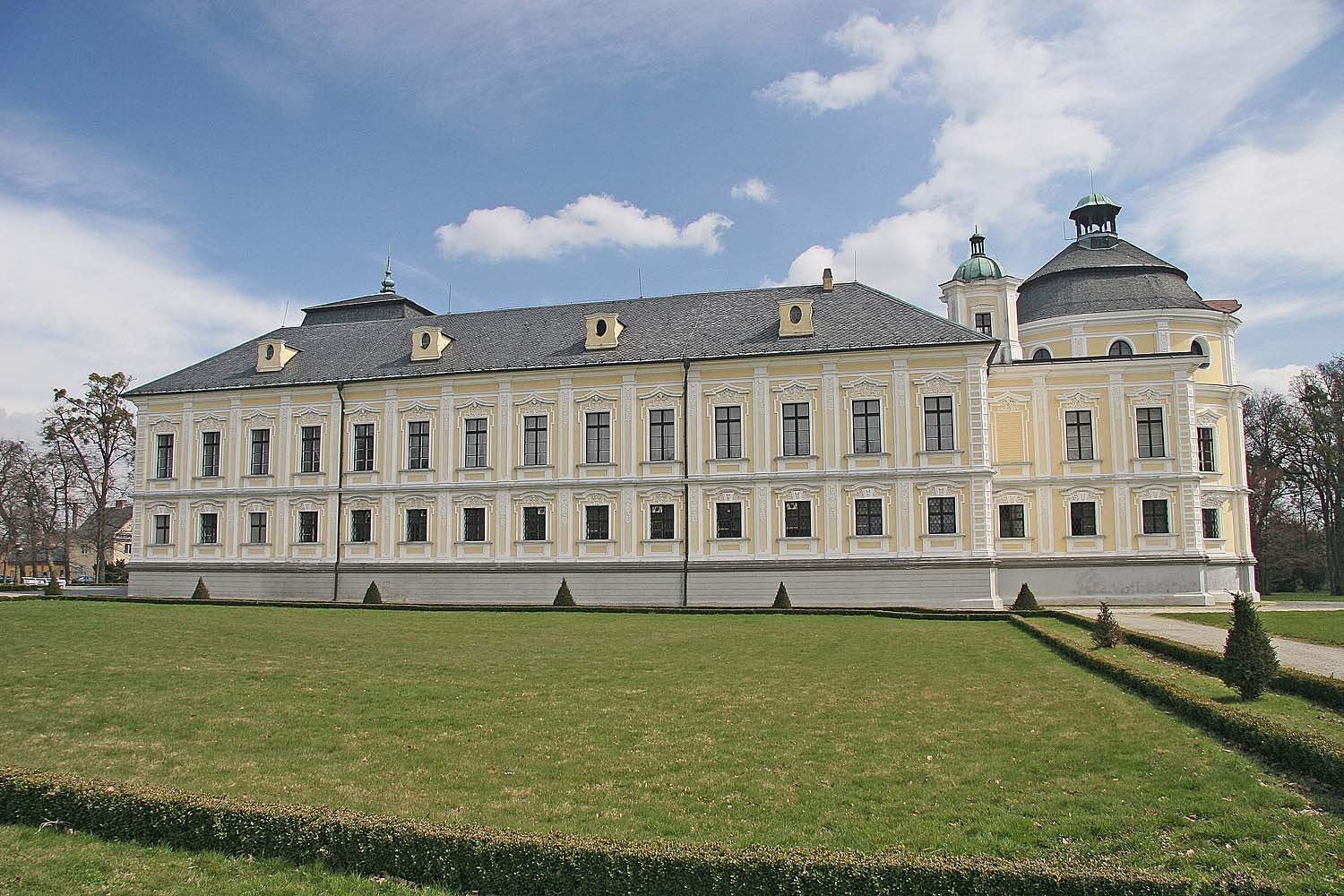 Baroque chateau in town of Kravaře, Opava DIstrict, Czech Republic